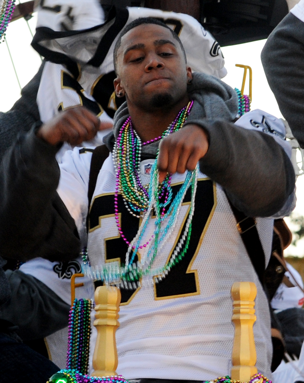 February 9, 2010